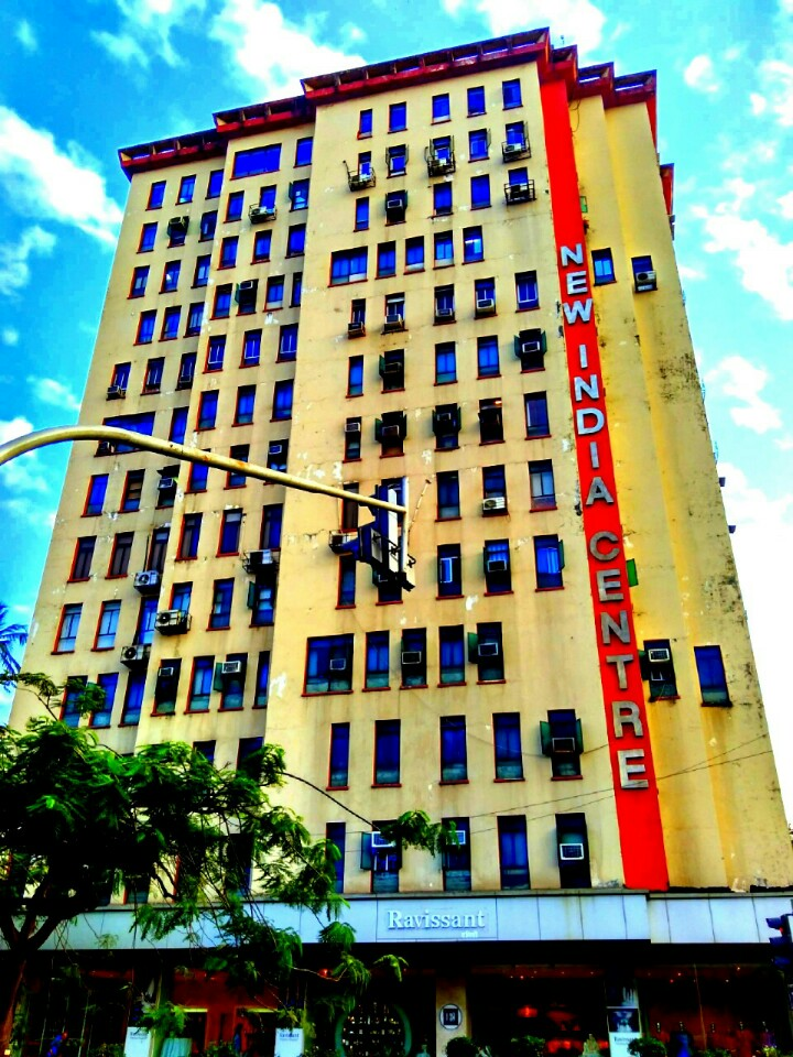 New India Assurance building, Fort, Mumbai